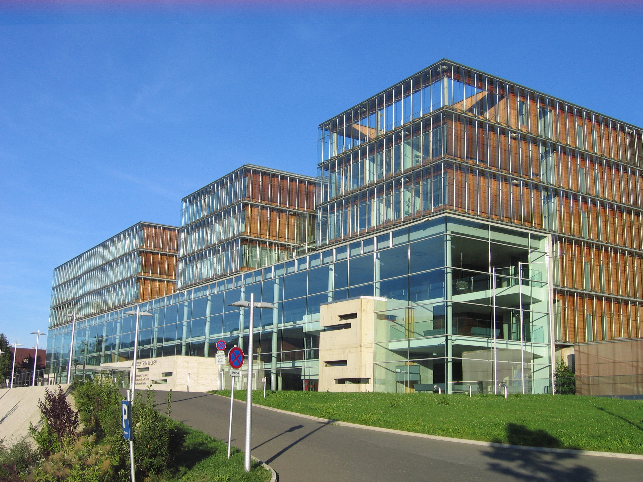 The building of the county court and penitentiary Leoben (Styria, Austria). Focus is on the court-wing of the building.